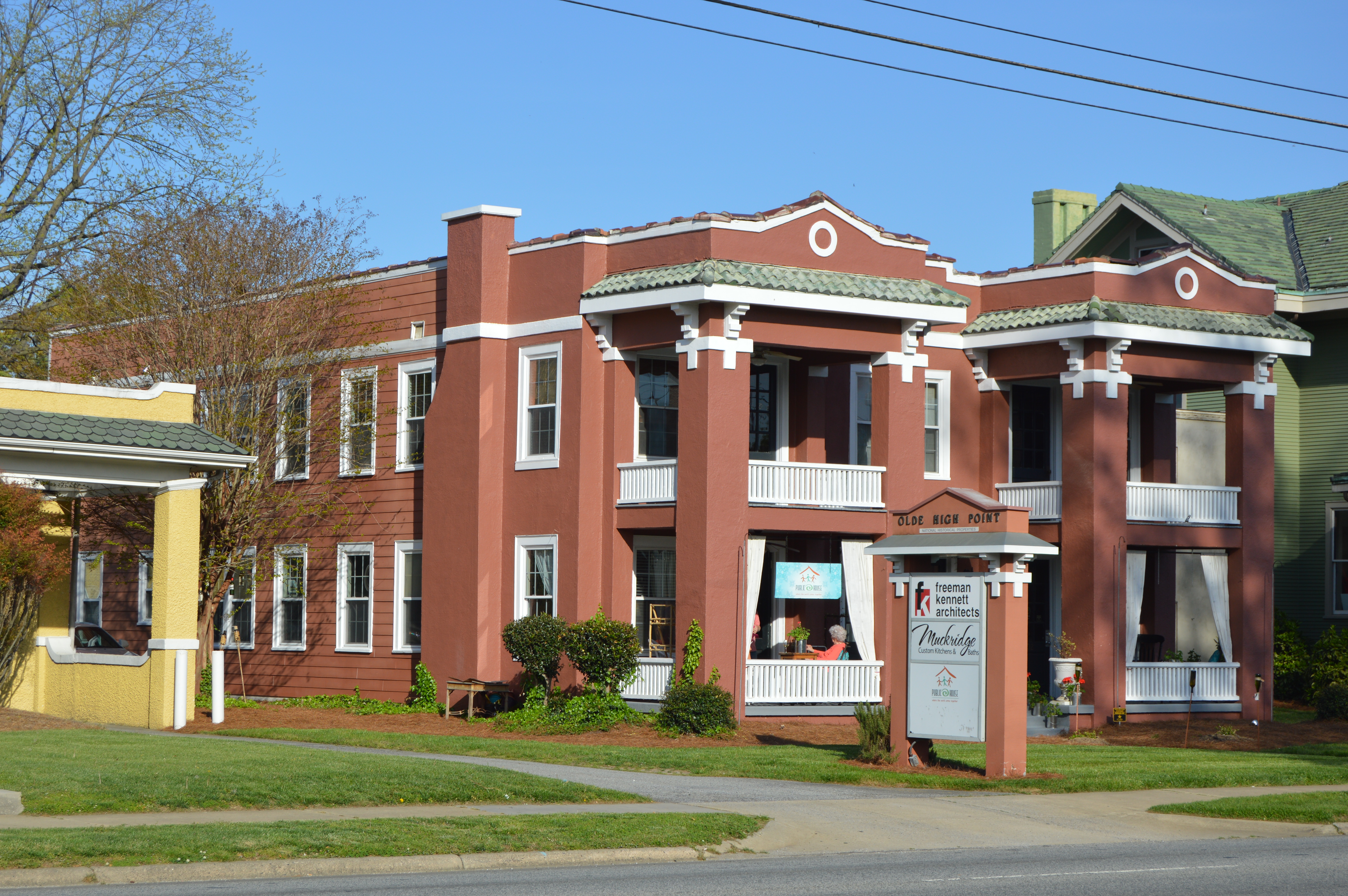 Front and northern side of the Hardee Apartments, located at 1102 N. Main Street in High Point, North Carolina, United States. Built in 1924, it is listed on the National Register of Historic Places.